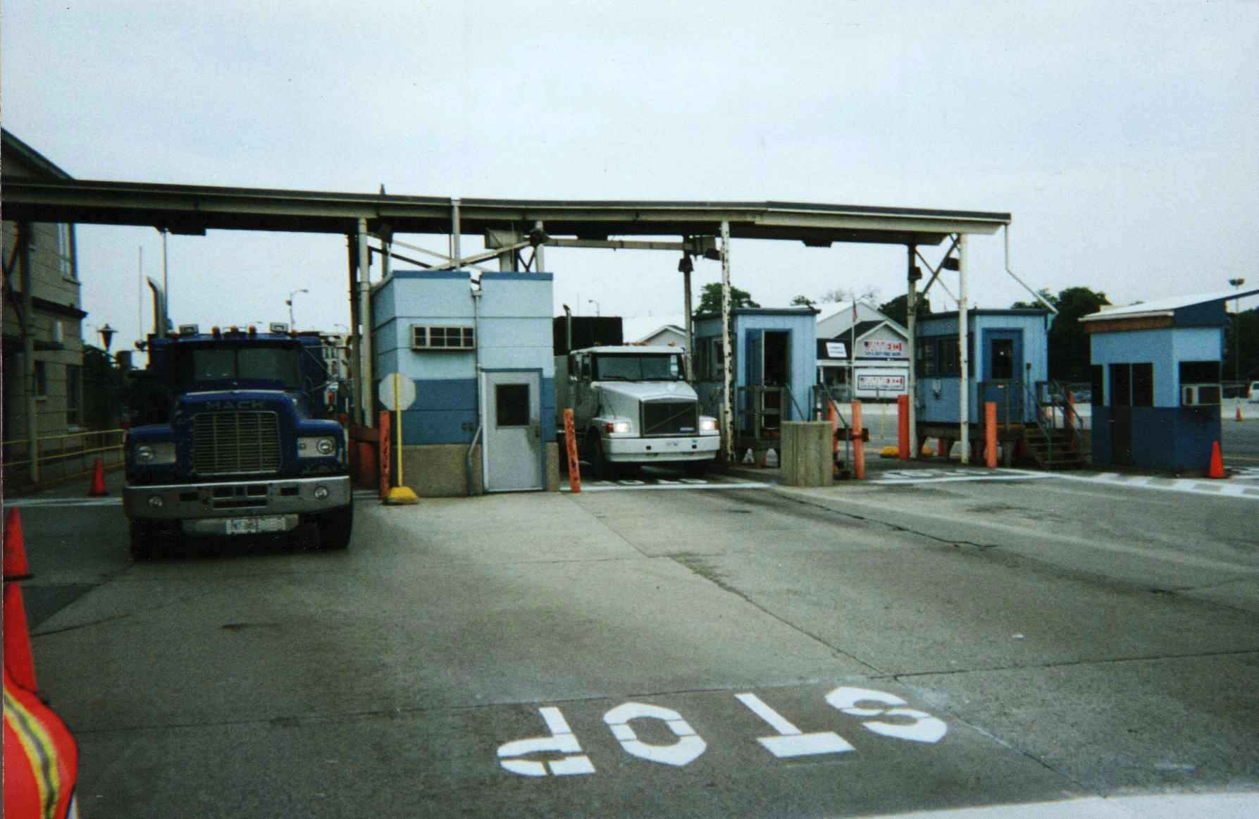 Detroit Ambassador Bridge Commercial Primary Inspection